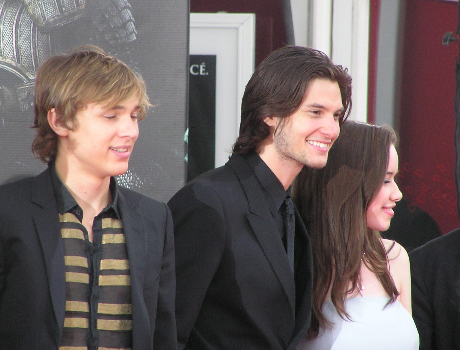 William Moseley, Ben Barnes & Anna Popplewell at the french premiere of The Chronicles of Narnia: Prince Caspian (21.06.2008)